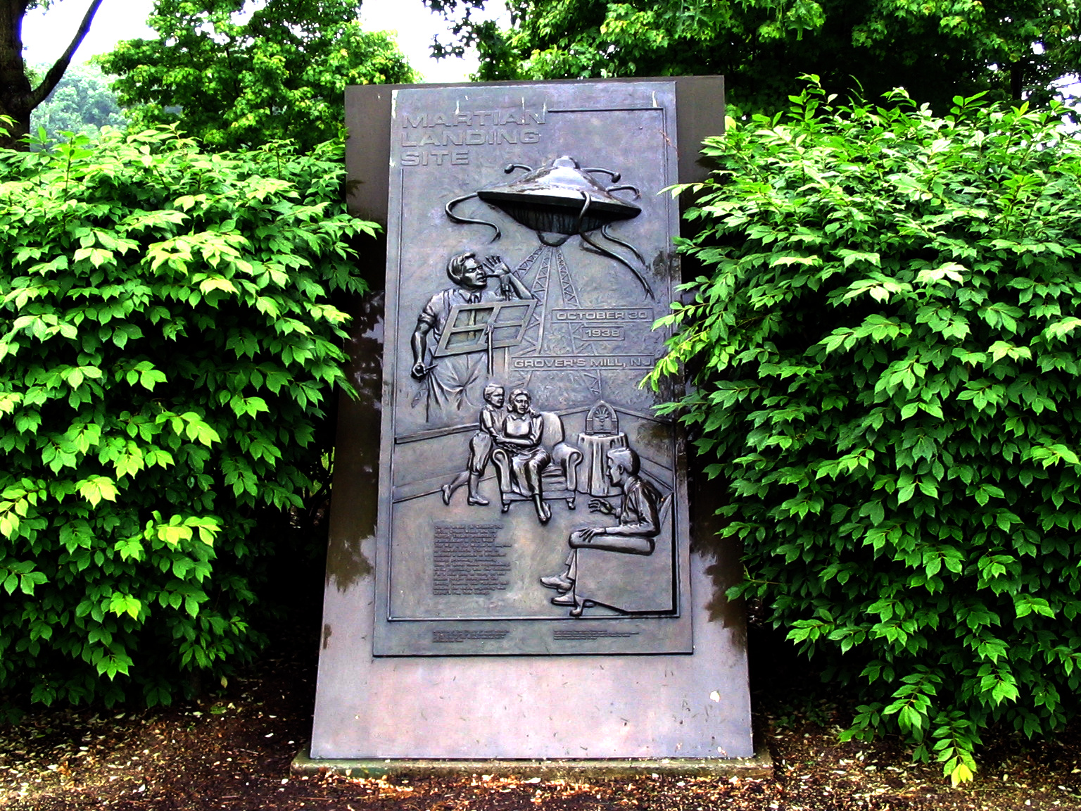 This picture was taken by me at the landing site Grover's Mill, New Jersey. The landing site is marked by the monument in the picture at the current day Van Nest Park in West Windsor Township, New Jersey.